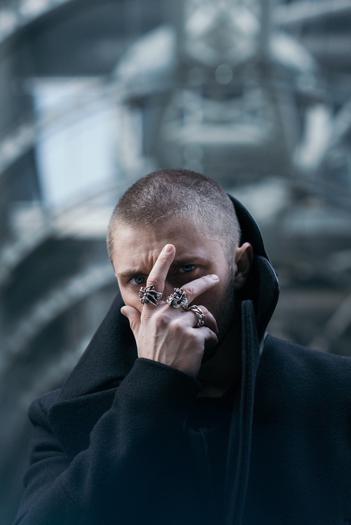 Tom London (Press pack)